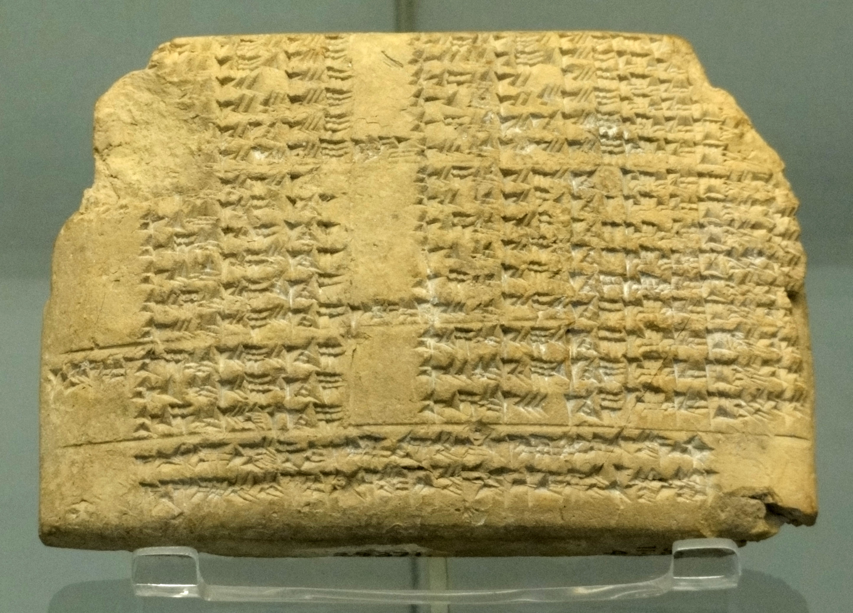 Cuneiform tabulation for a water clock.